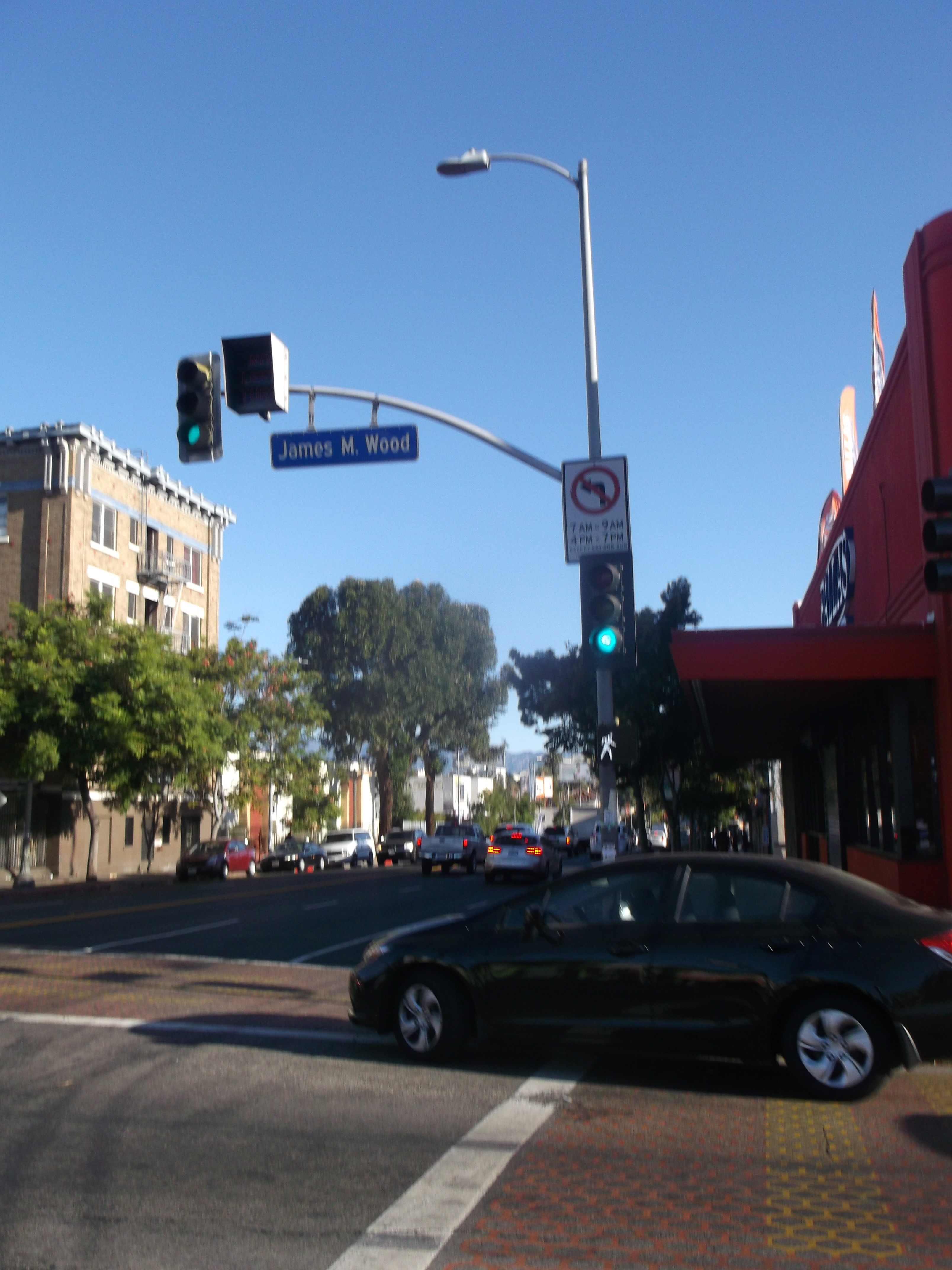 A street in Westlake, Los Angeles